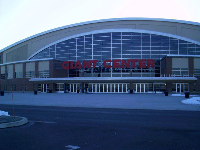 The Giant Center in Hershey, Pennsylvania